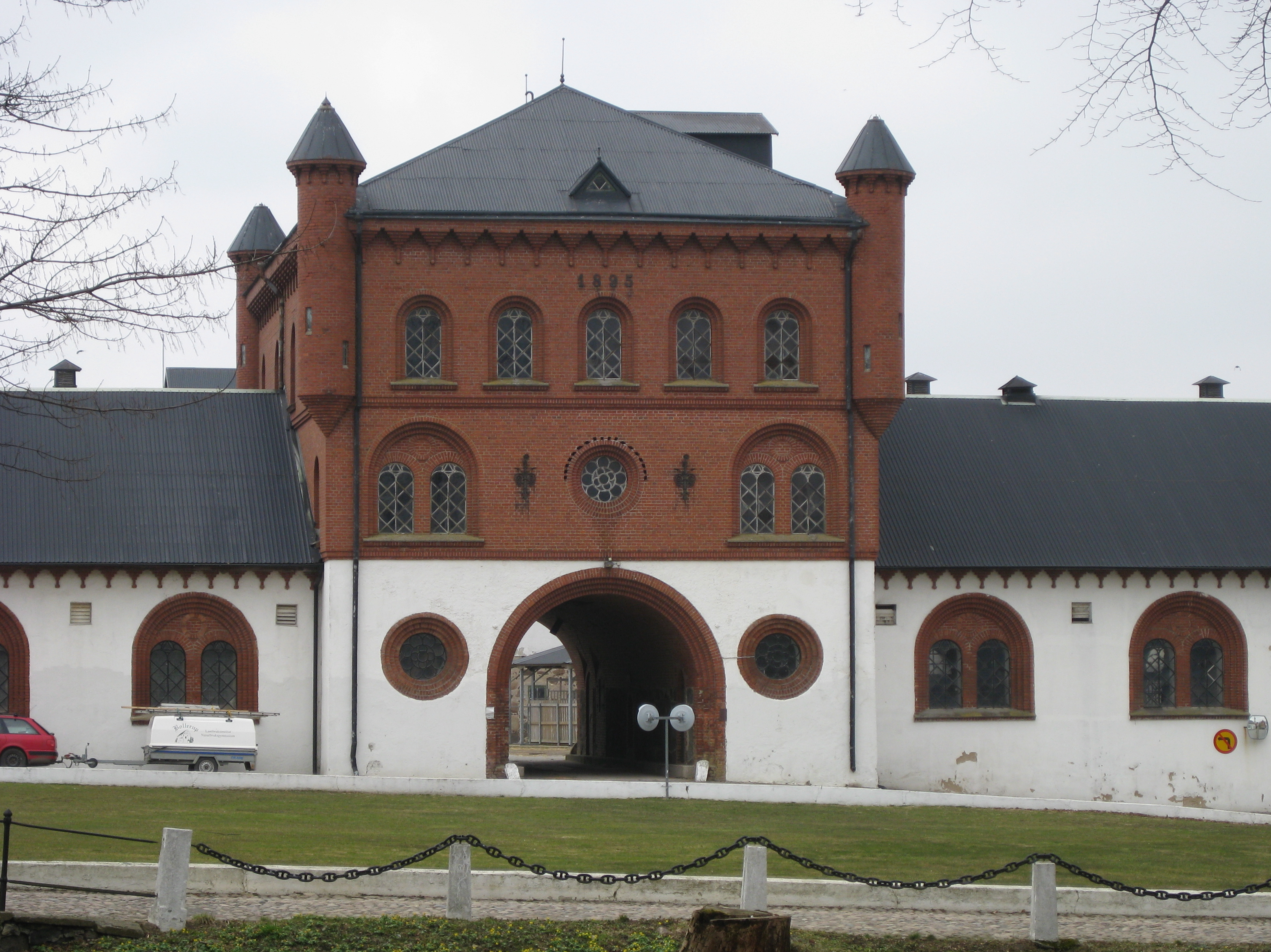 Bollerup, stables